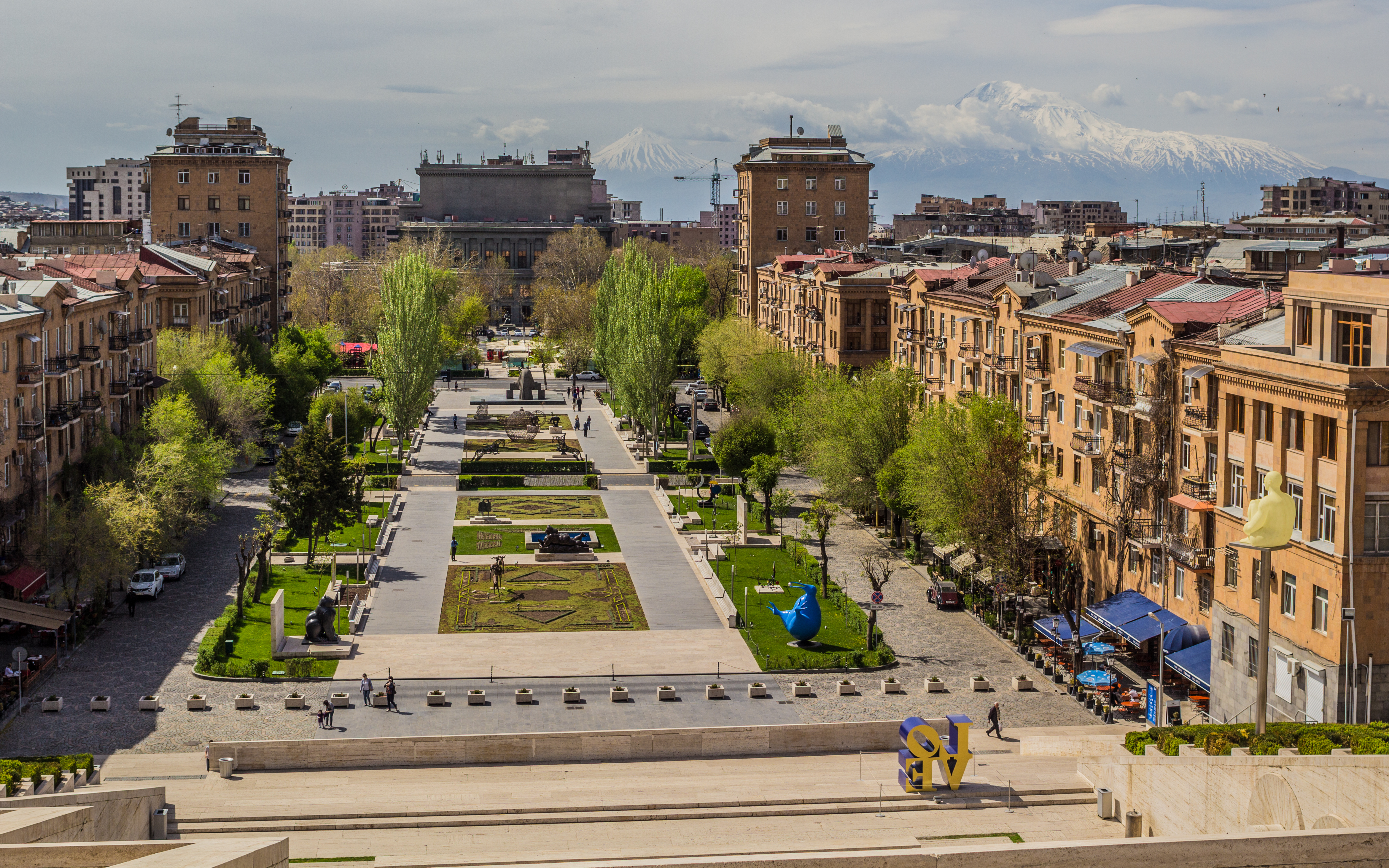 View from the second level of the Cafesjian Museum of Art in Yerevan, Armenian capital. (The area is known as the Cascade.)